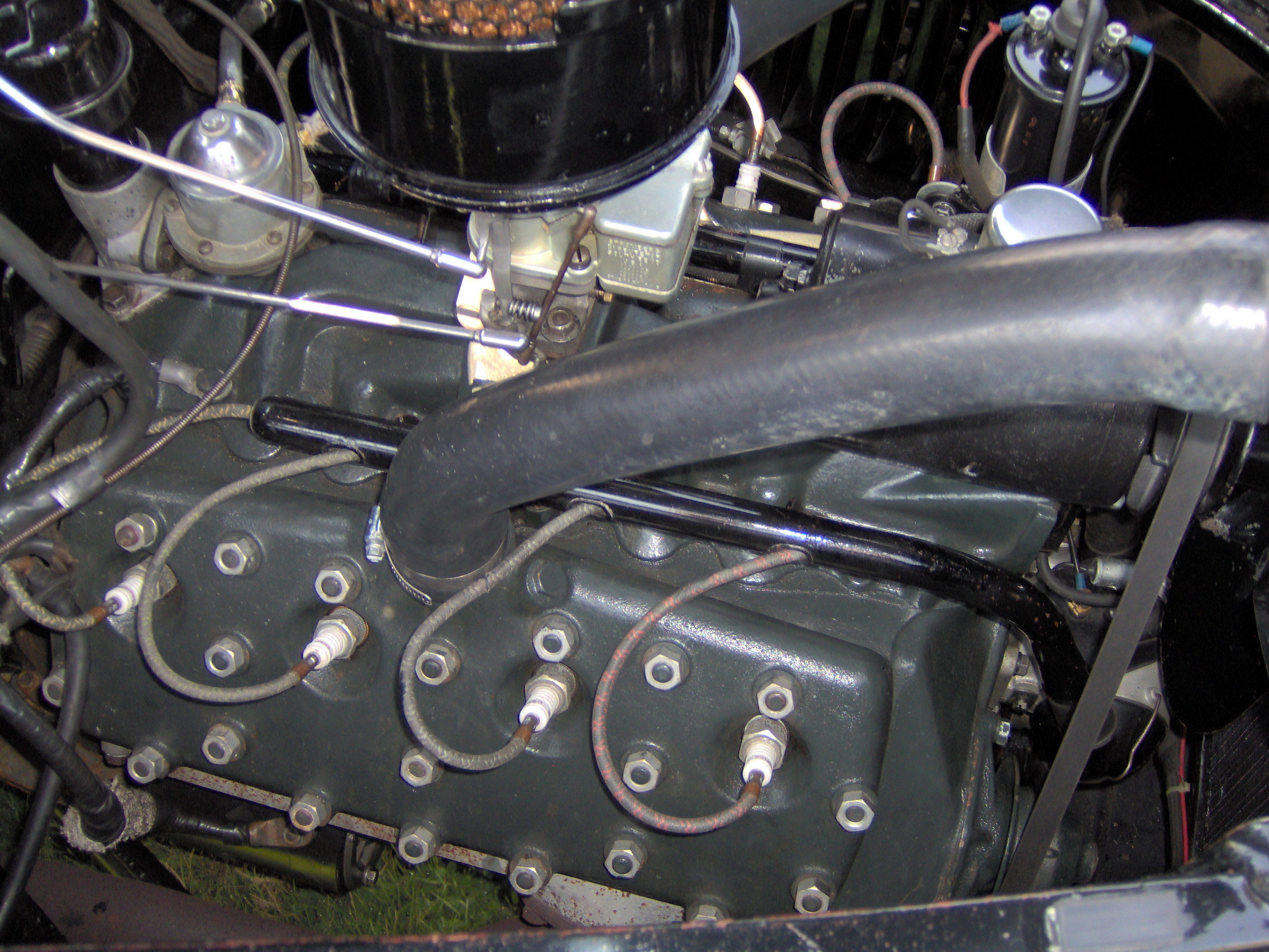 1937 Ford coupe Flathead V8 engine